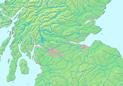 blank map of Scotland with build up areas